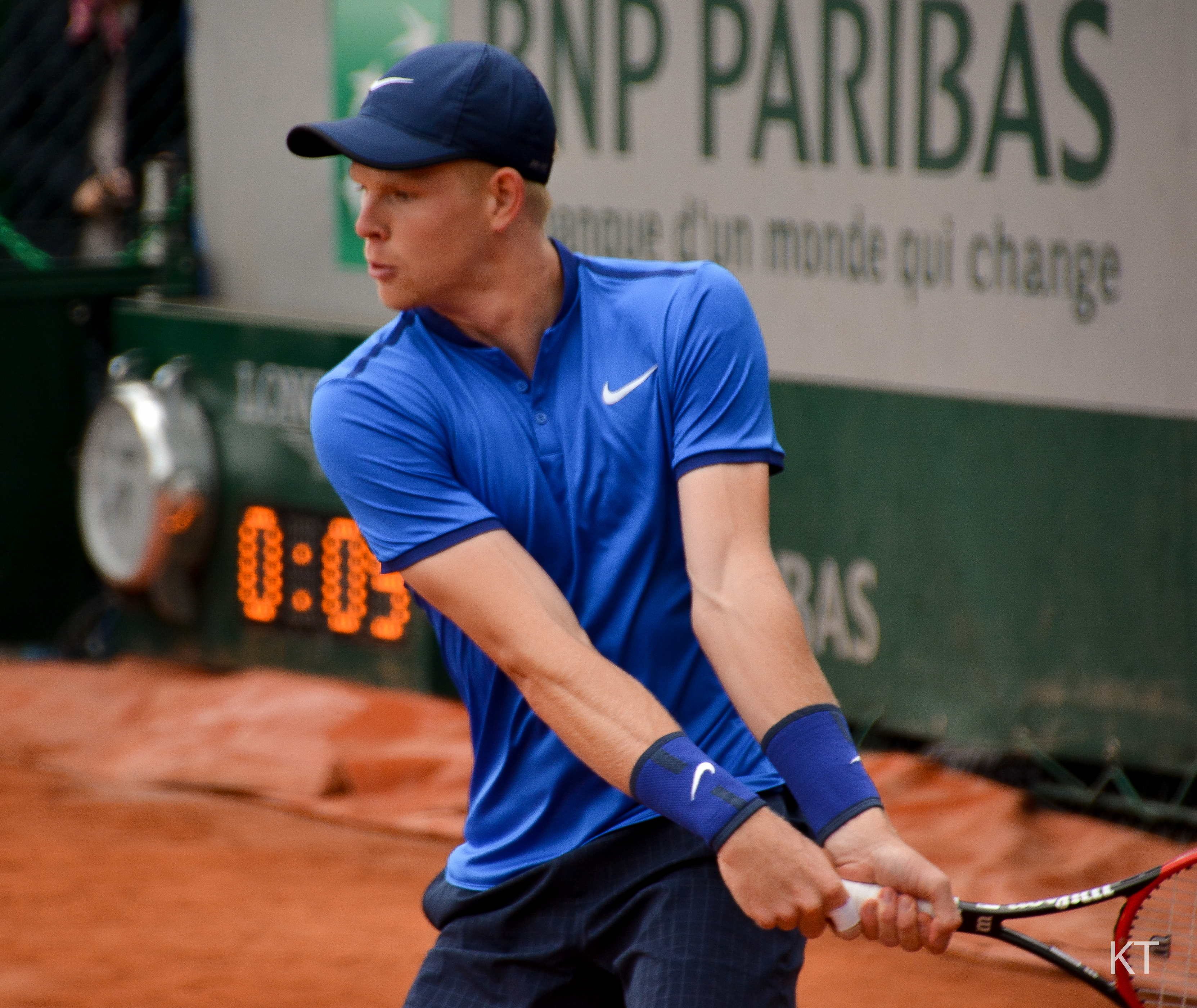 Kyle Edmund v Nikoloz Basilashvili (R1). Day 2 of Roland Garros 2016.